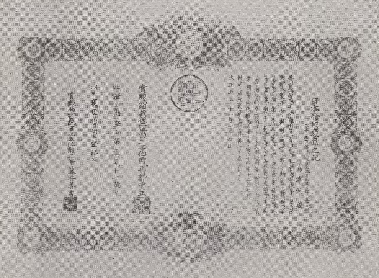 The certificate of The Medal with Green Ribbon for Shimazu Genzō II in 24th November 1916.